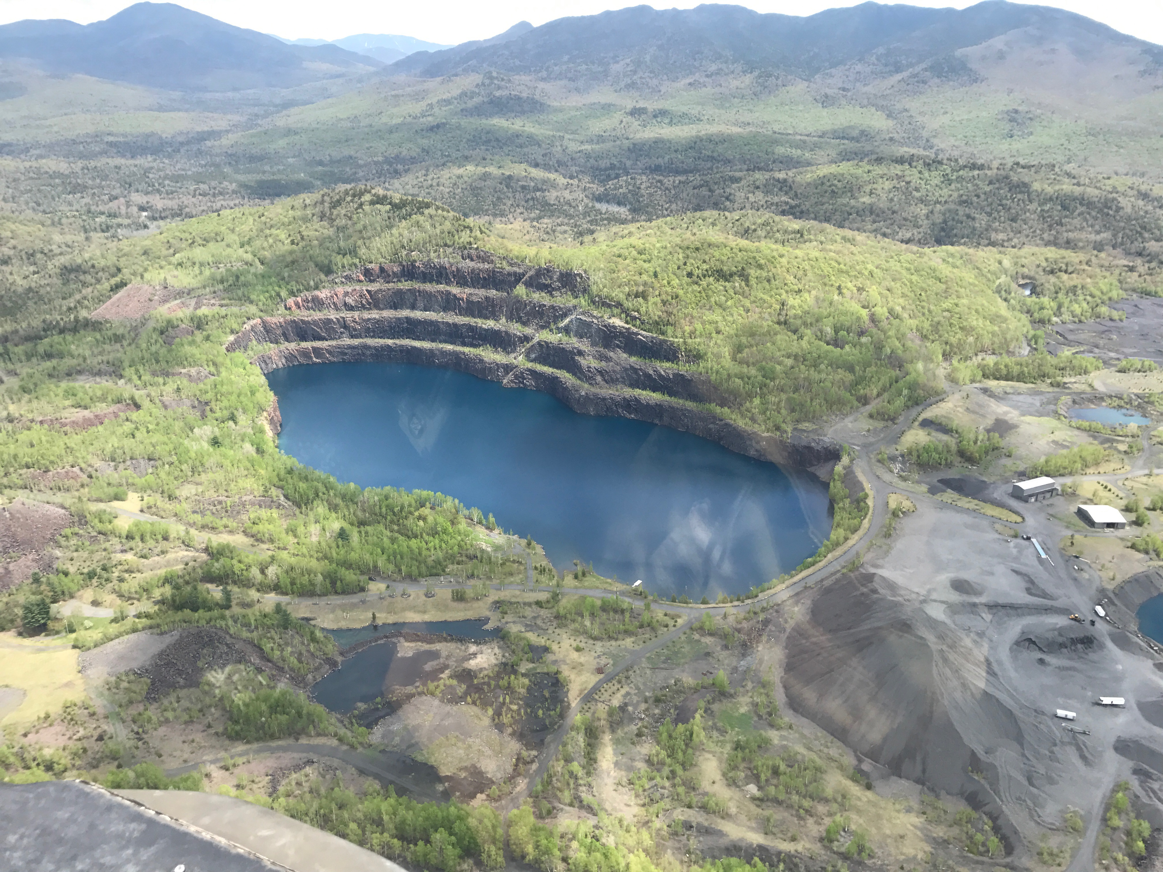 Flooded Quarry lake in Tahawas, NY, just SE of Mt. Marcy in the Adirondack Mountains.